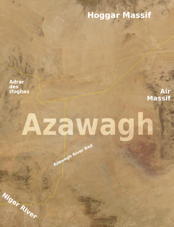 space image of Northwest Niger, Northeast Mali, and southern Algeria, showing the Azaouad / Azawad / Azawagh region and surroung geographic regions